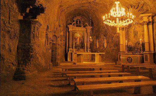 Bochnia salt mine in Poland. One of the areas was converted to a sanatorium